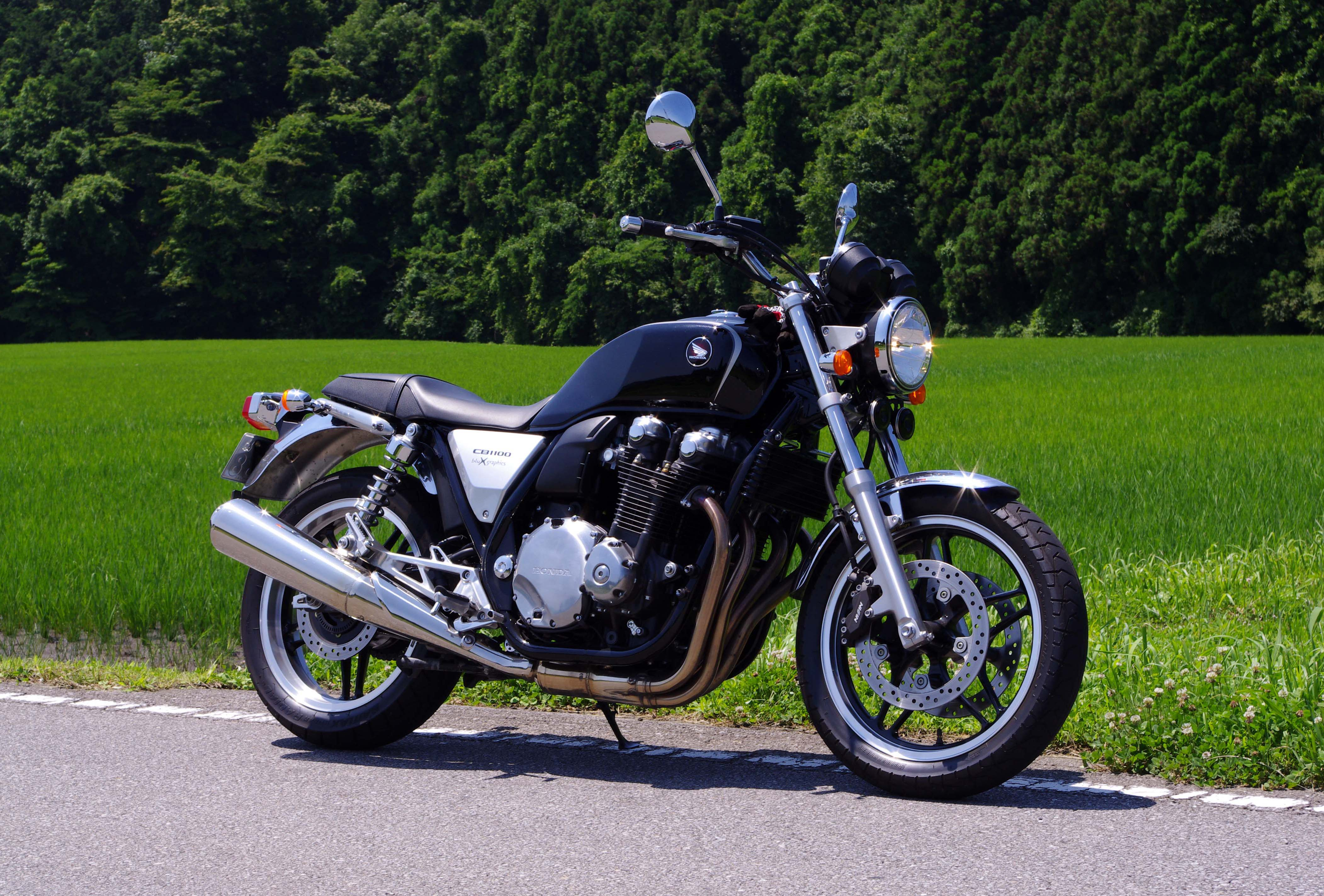 feel free to use this photo if you kindly introduce about japan!